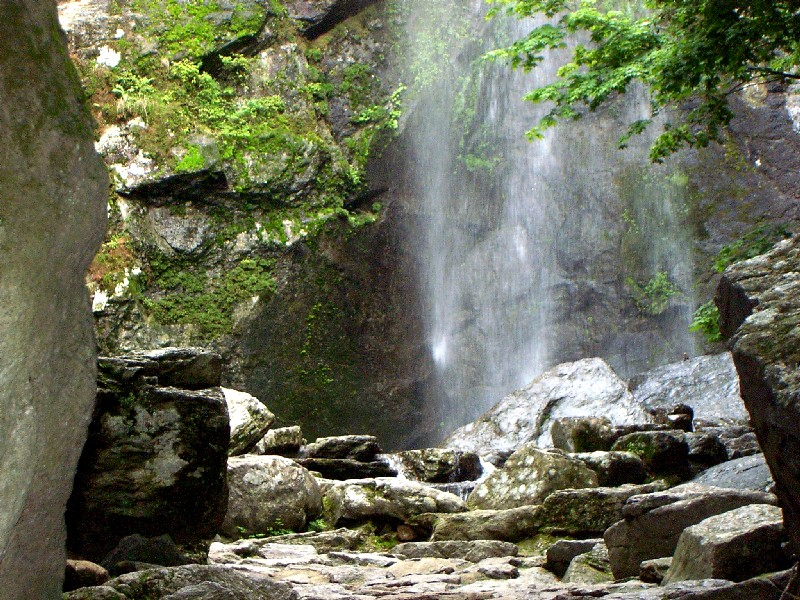 The waterfall along the trekking path - Geumosan (Mount Geumo) National Park, Gumi, South Korea